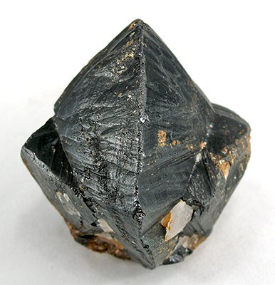 Cassiterite Locality: Horní Slavkov (Schlaggenwald), Karlovy Vary Region, Bohemia (Böhmen; Boehmen), Czech Republic (Locality at ) Size: miniature, 5.5 x 5.1 x 4.6 cm Cassiterite (HUGE XL!) not twinned, i think - most unusual! extremely significant for size and locality ...and impressive in person! good old label...